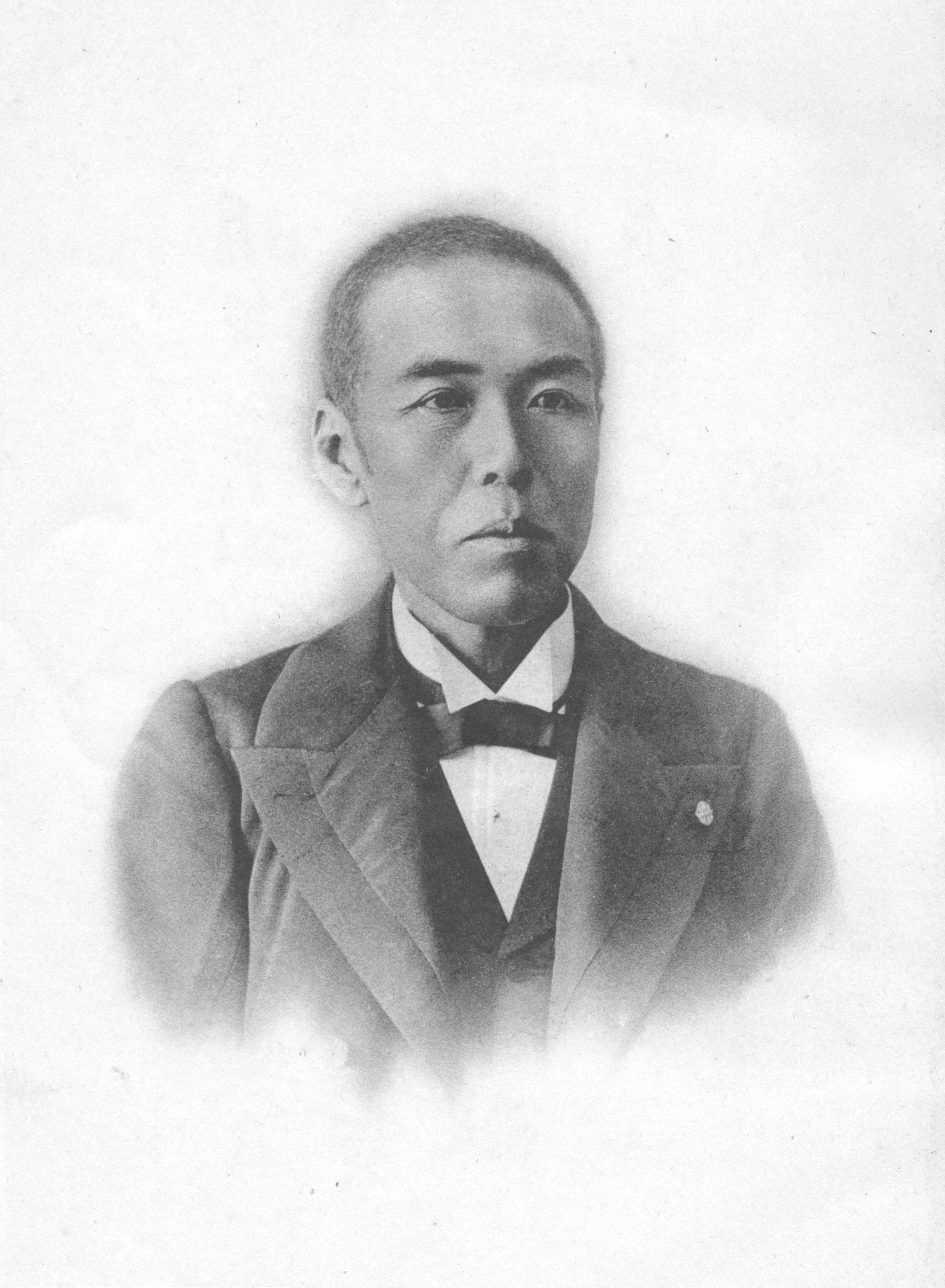 Naka Michiyo.